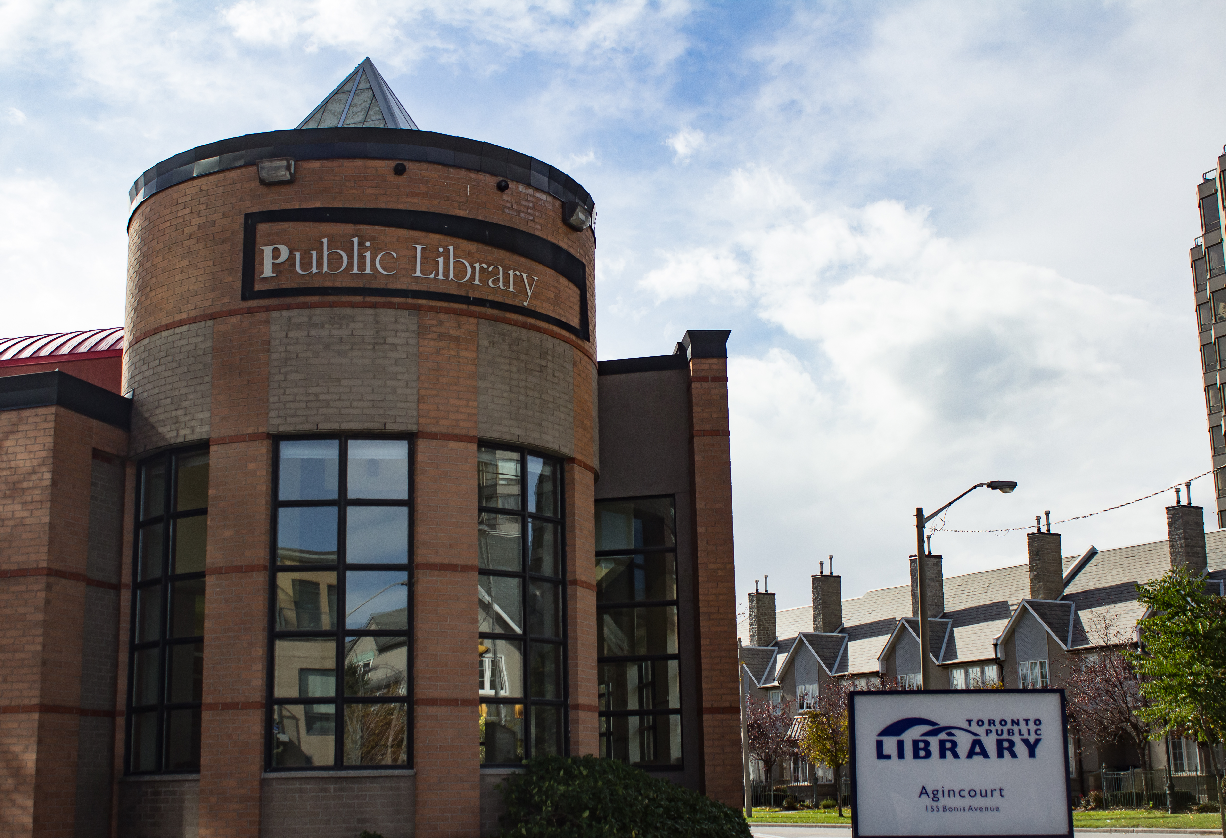 The exterior or the Agincourt Library, near Kennedy Road and Bonis Avenue.